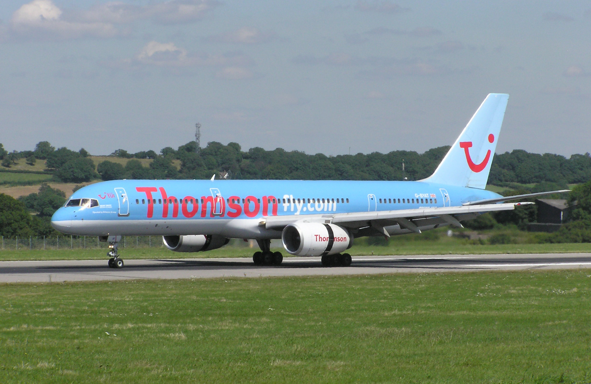 Thomsonfly Boeing 757-200 taxiing at Bristol International Airport, Bristol, England.